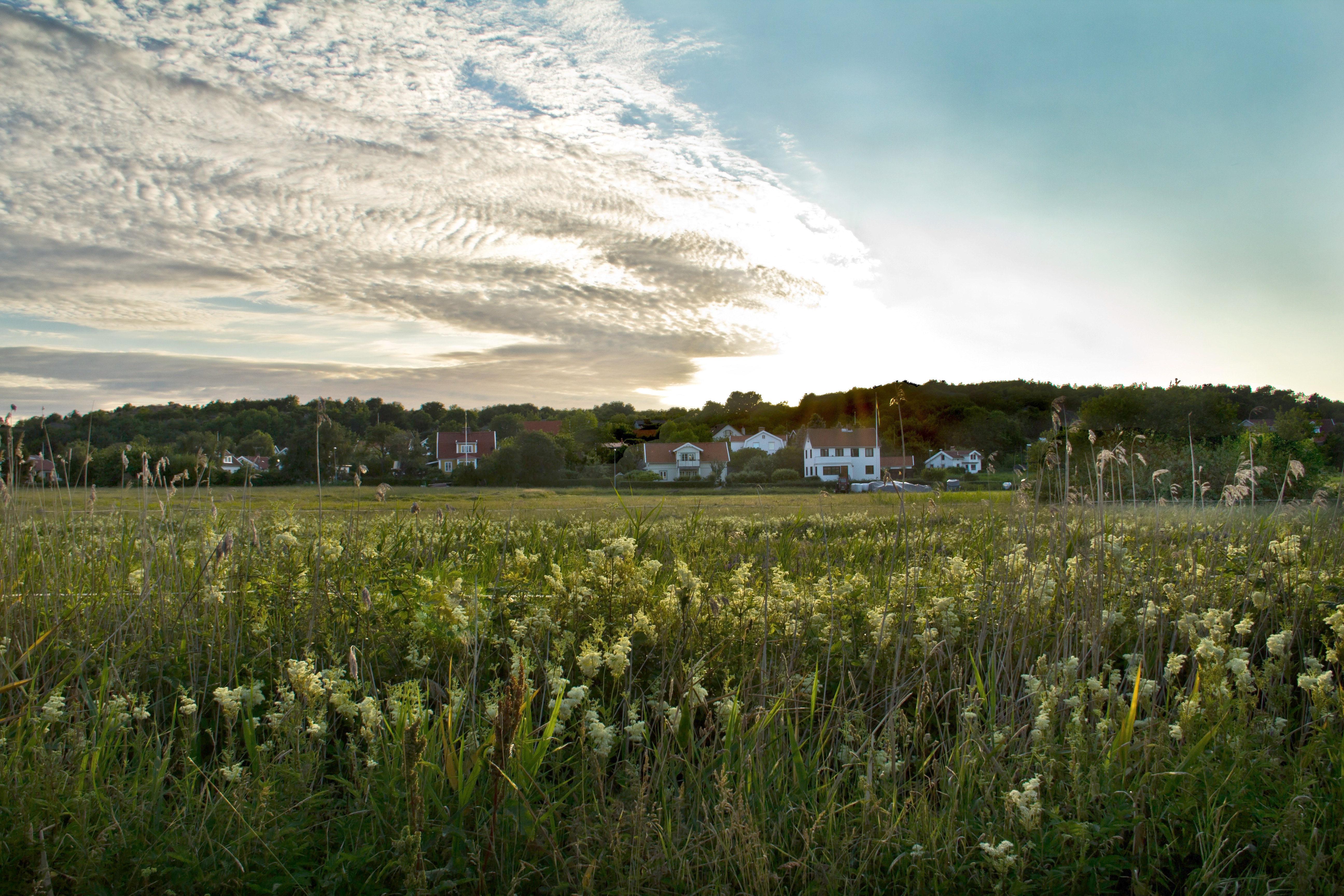 The field that is located close to the center of Brännö island in the Southern Gothenburg Archipelago.